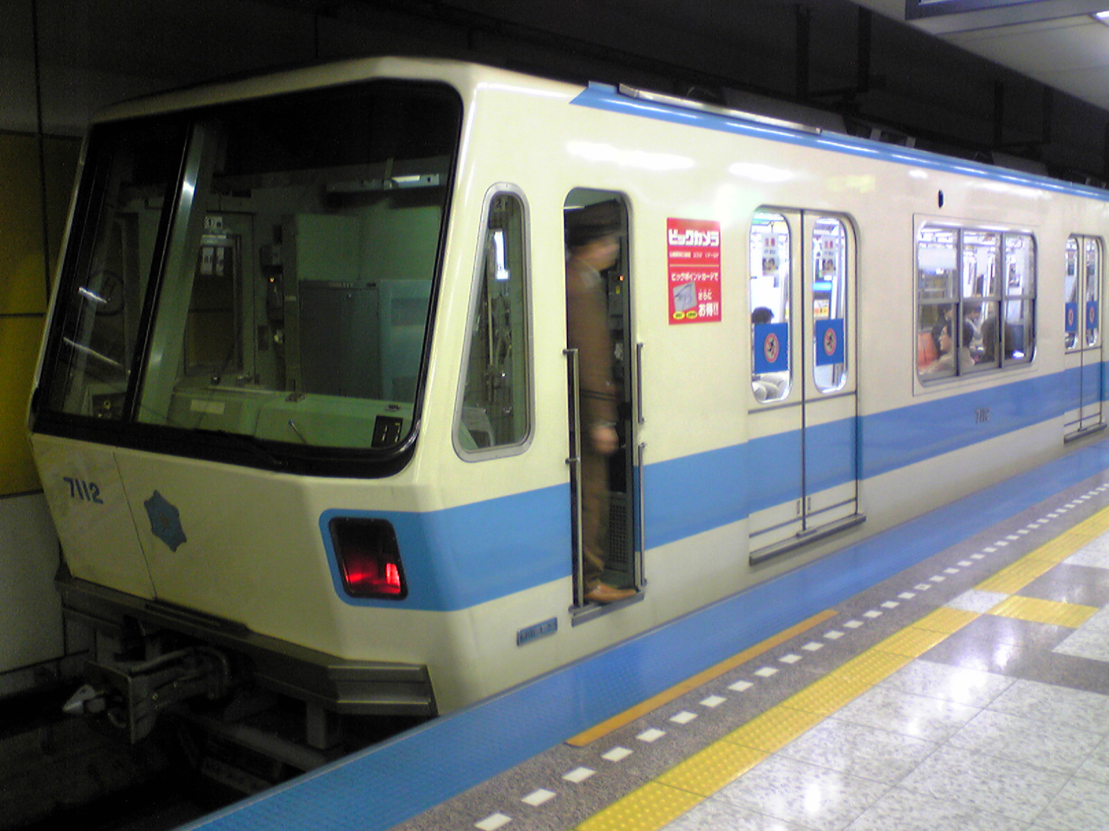 Sapporo City Transportation Bureau 7000-Type Railcar, Tōhō line, Sapporo-city, Japan. Taken by Bellz asamidou on November 4, 2007.